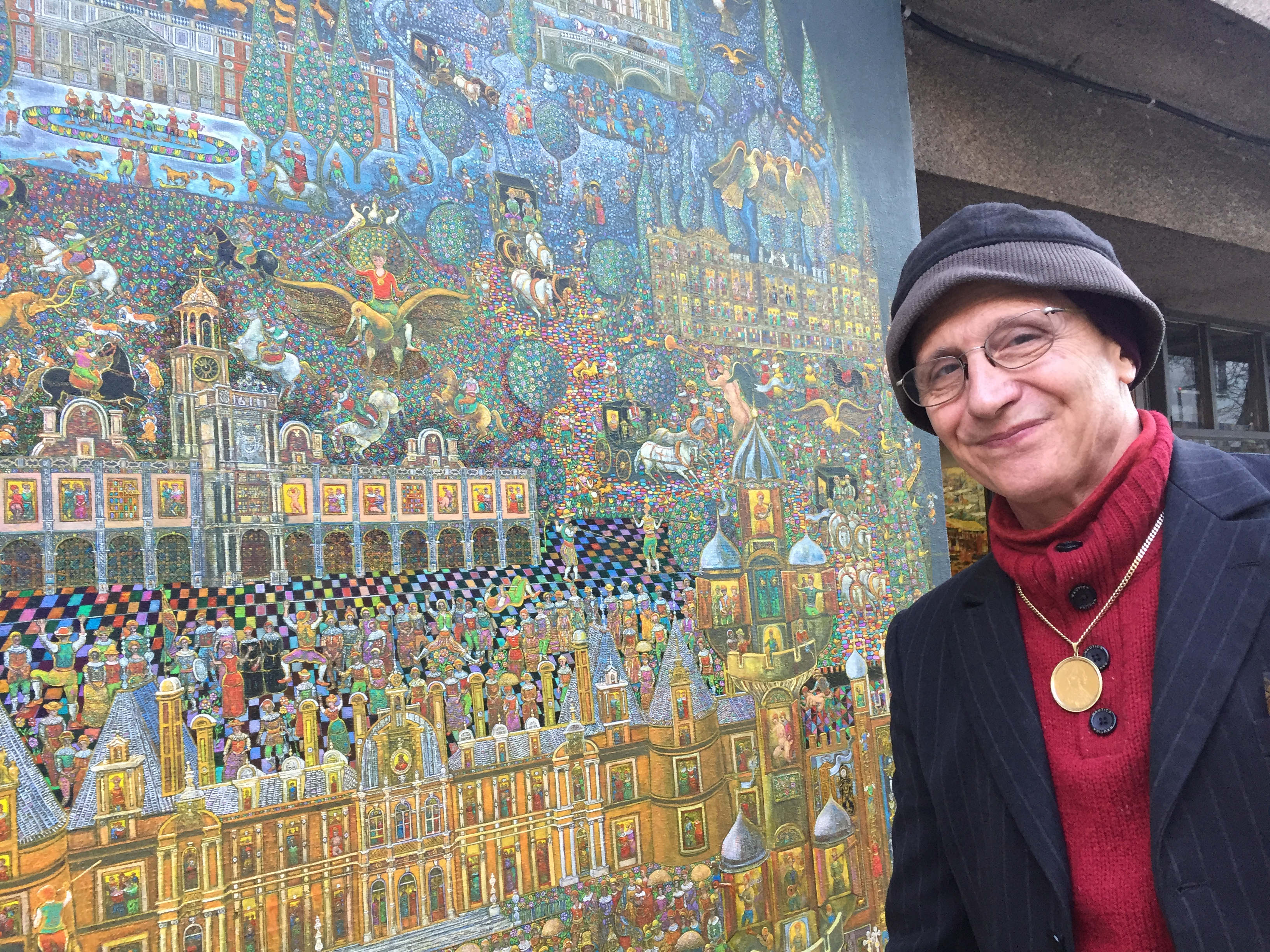 Mihail Camberov Bulgarian painter